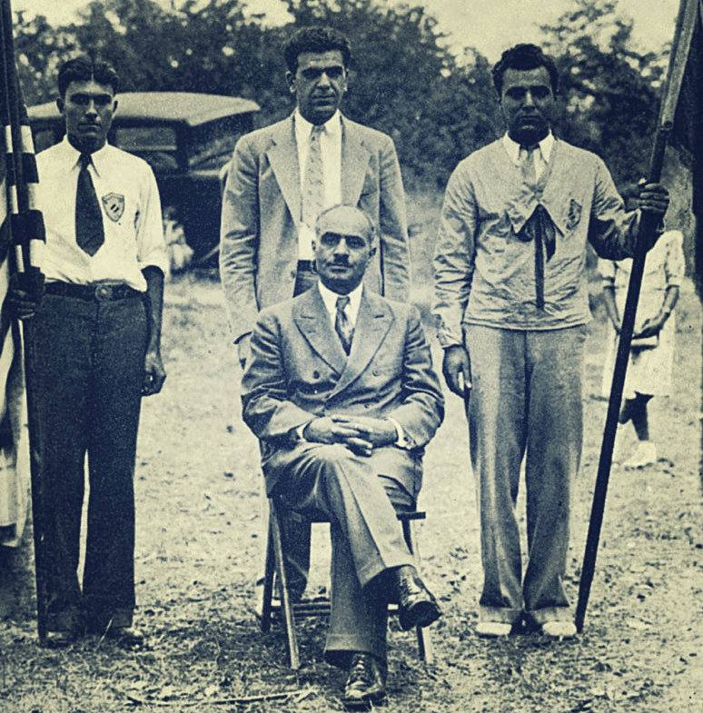 Founder of «Tseghakron Oukhter» organization Garegin Nzhdeh (sitting), behind: Tigran Mouradian. From both sides are activists of «Tseghakron Oukhter» movement with Armenian and American national flags.